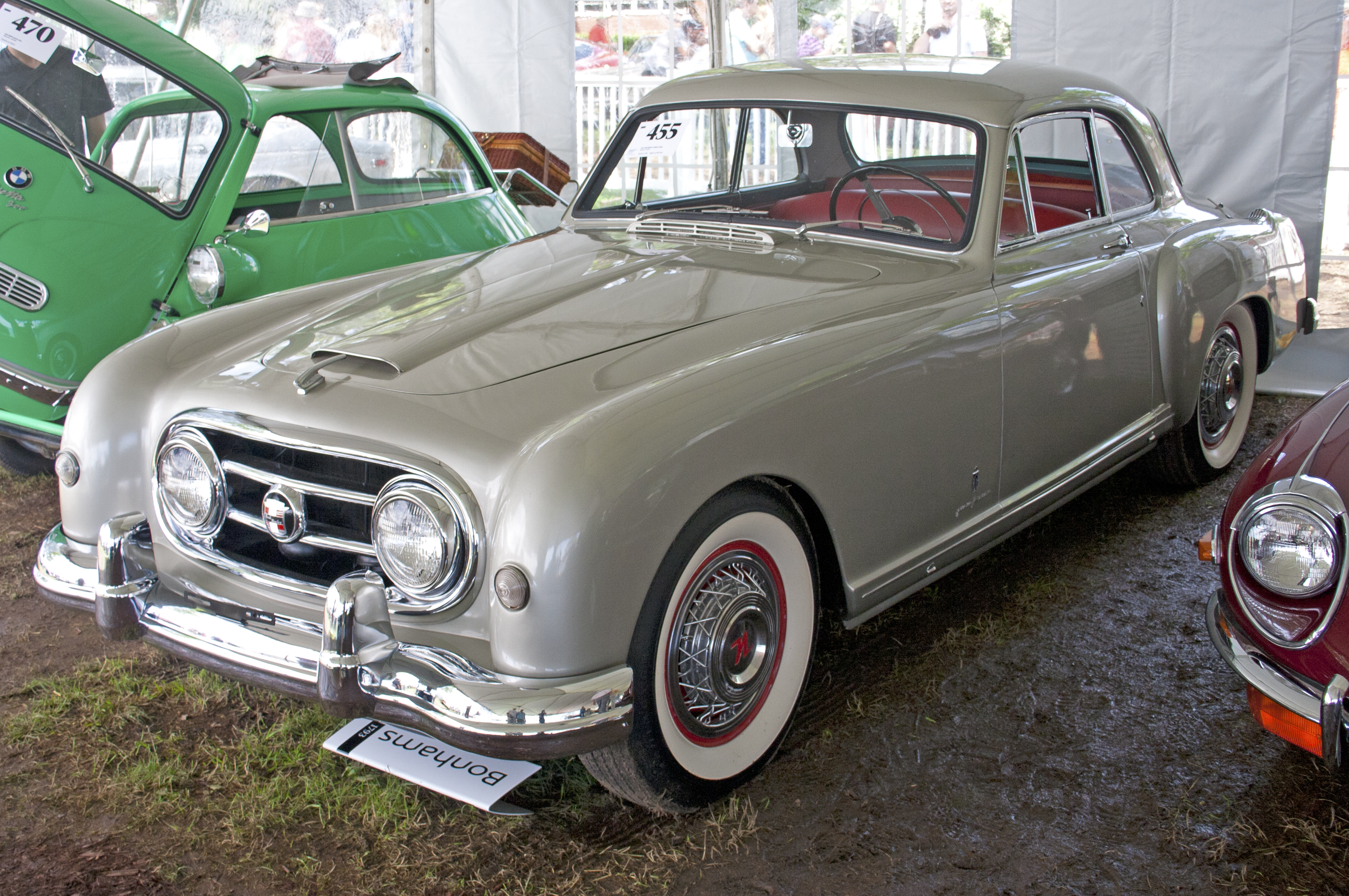 1954 Nash-Healey LeMans Coupé, with 252 cid OHV six. Chassis no 3025, engine no NHA 1248. Seen at the Bonhams auction at the 2012 Greenwich Concours d'Elegance.